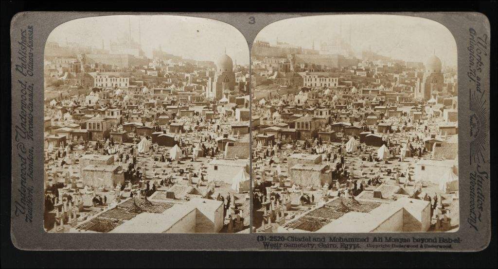 Aerial view of the Citadel and Mohammad Ali Mosque